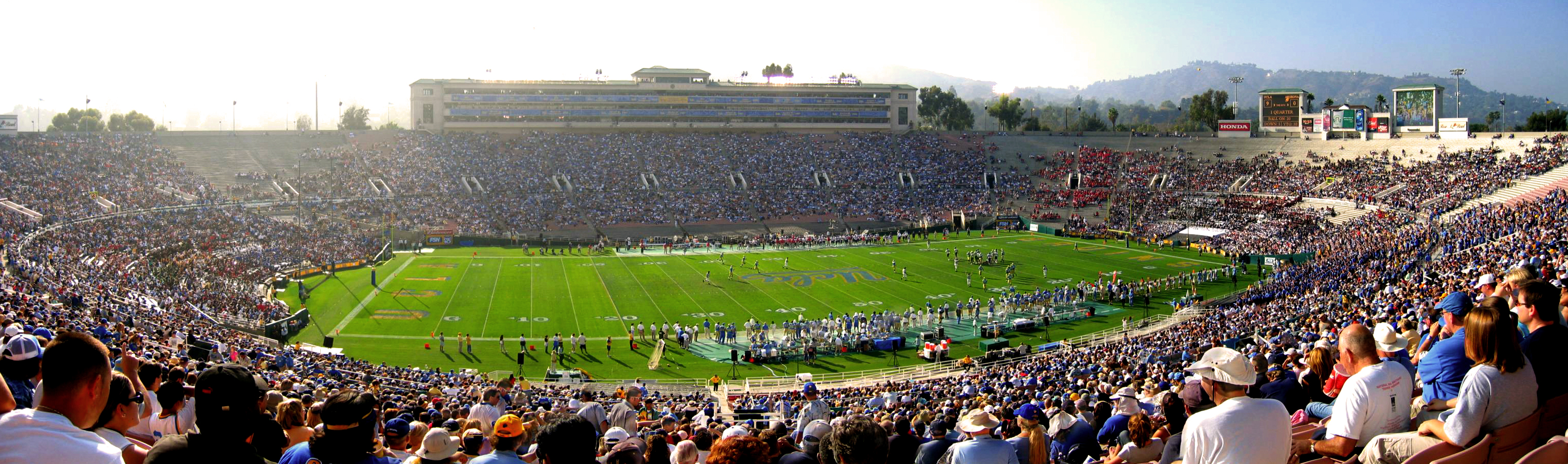 tipoff - tomorrow at 5:45pm PST